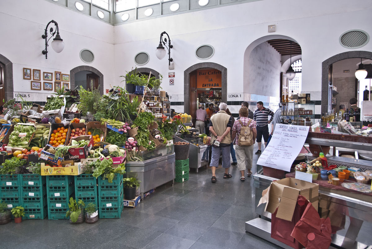 Interior of the market hall of Santa Cruz de La Palma.